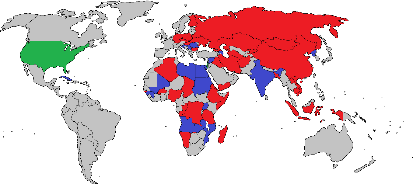 Current operators of the MiG-21 in blue and former operators red. Operators of the Mikoyan-Gurevich MiG-21, corrected version, still omitting countries that use(d) only Chengdu J-7.